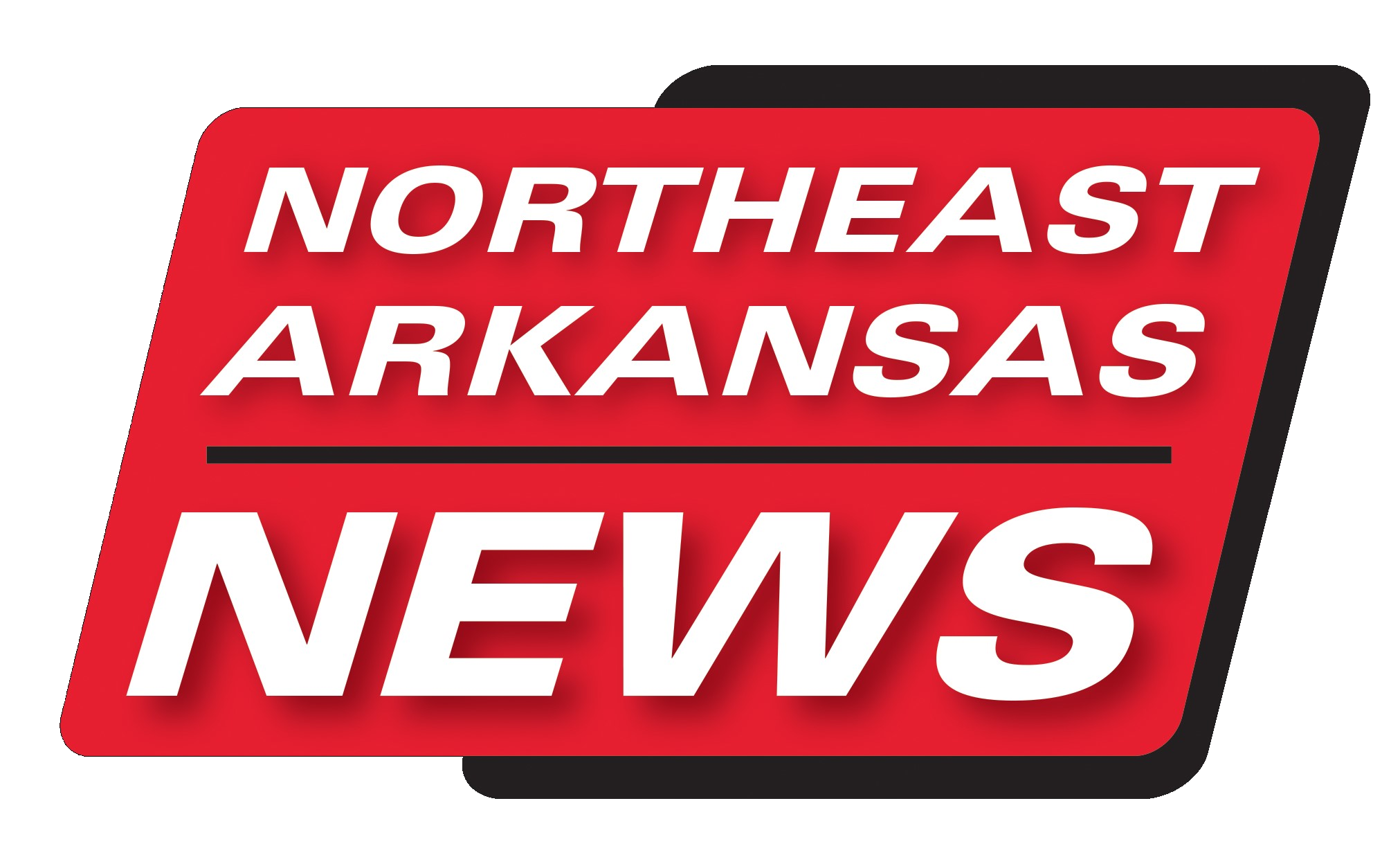 This Is The Logo Of "Northeast Arkansas News" (The Branding Of The Newscasts Of KJNB-LD1 & KJNE-LD1 "KJNB Fox" And KJNB-LD2 & KJNE-LD2 "KJNB CBS"), (As Of July 17, 2017). This logo has been featured in the newscasts of "KJNB Fox" and "KJNB CBS" ever since the July 17, 2017 launch of the station's news department.